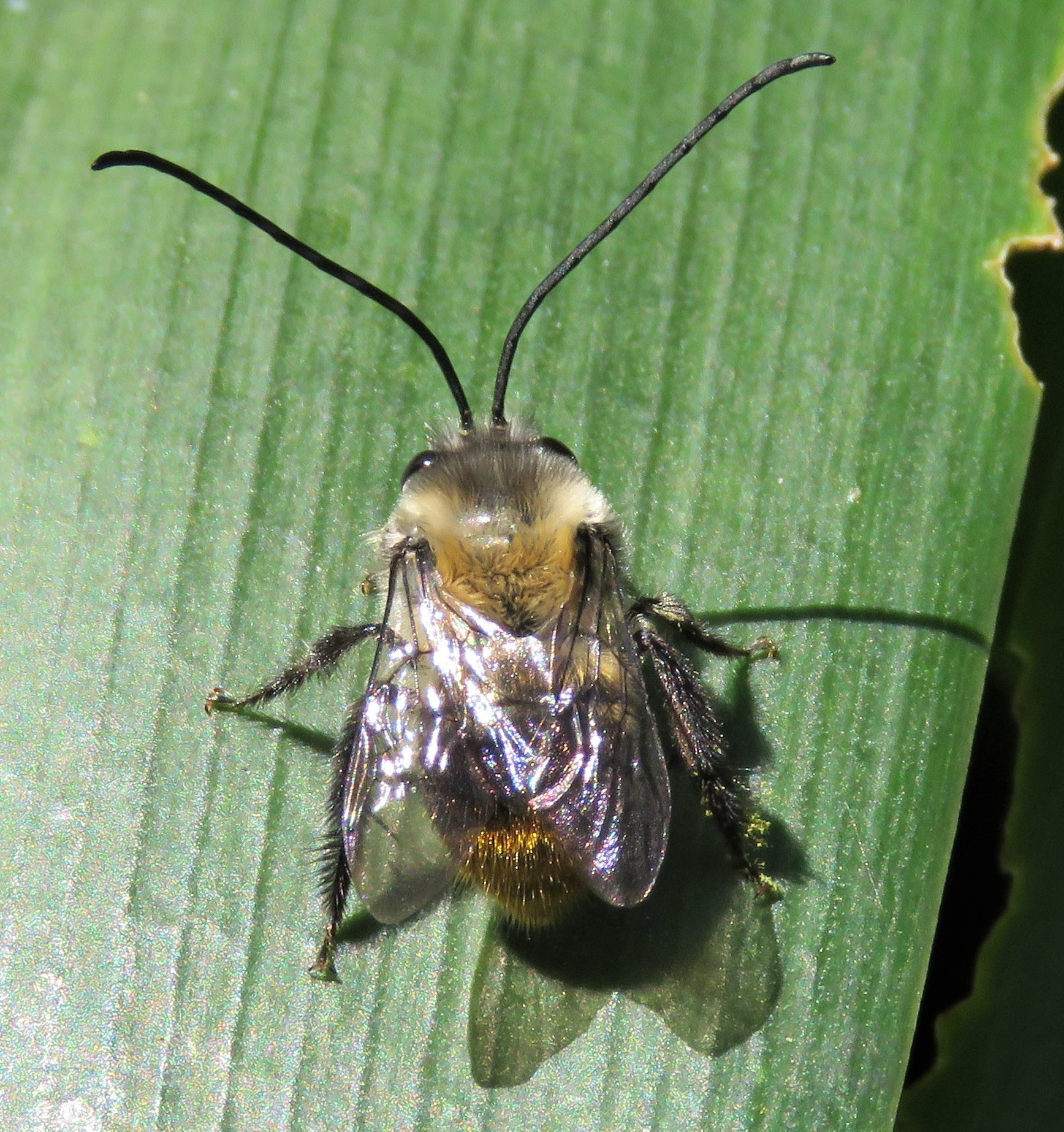 Thygater aethiops. Species of insect.